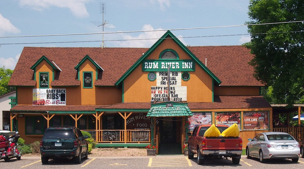 Rum River Inn (former Riverside Hotel), St. Francis, Minnesota, USA